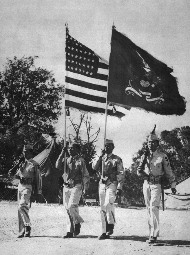 Marching the unit's color